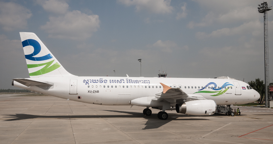 Airbus 320 at Siem Reap International Airport